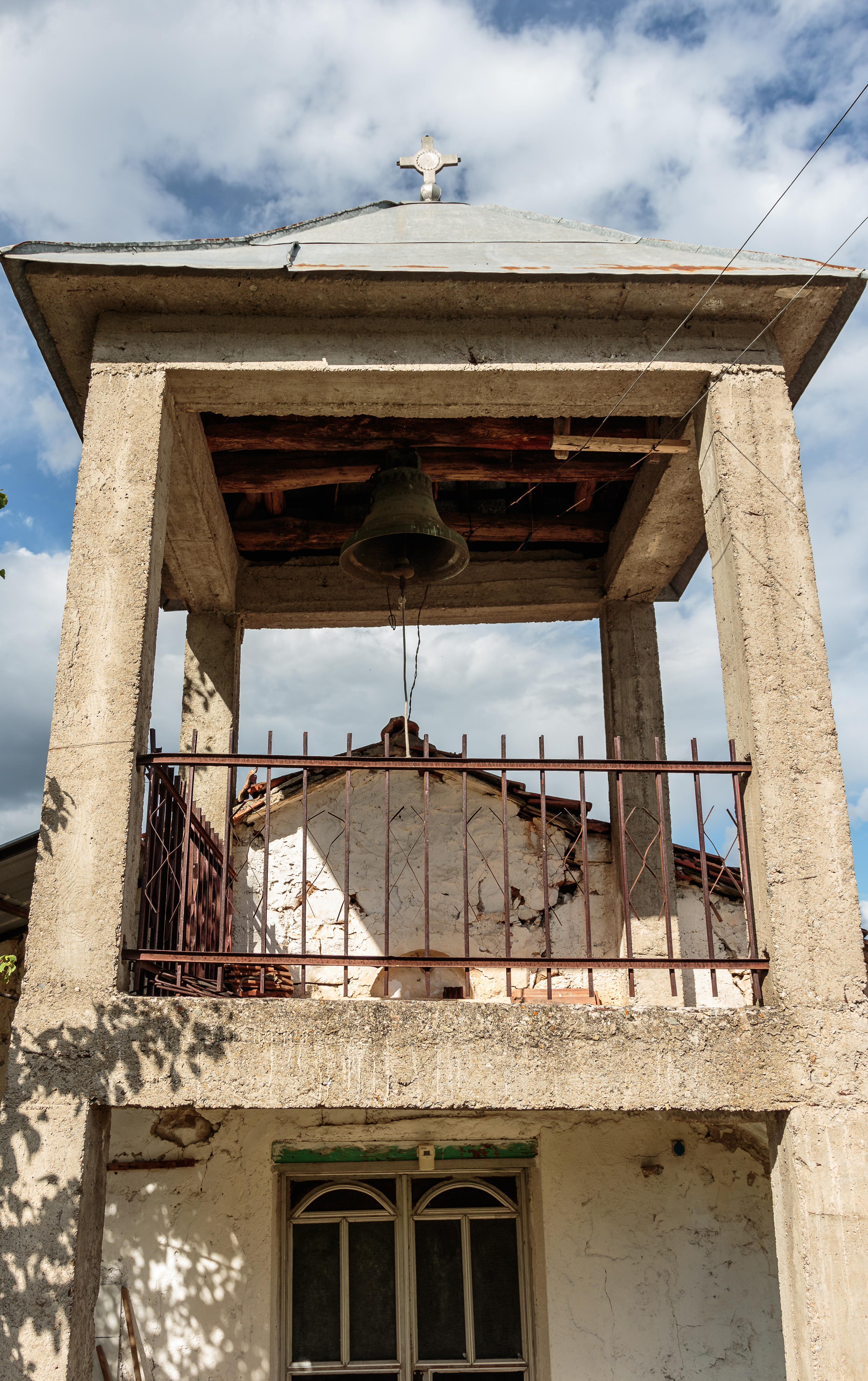 View of St. Petka Church in the village Sloeštica